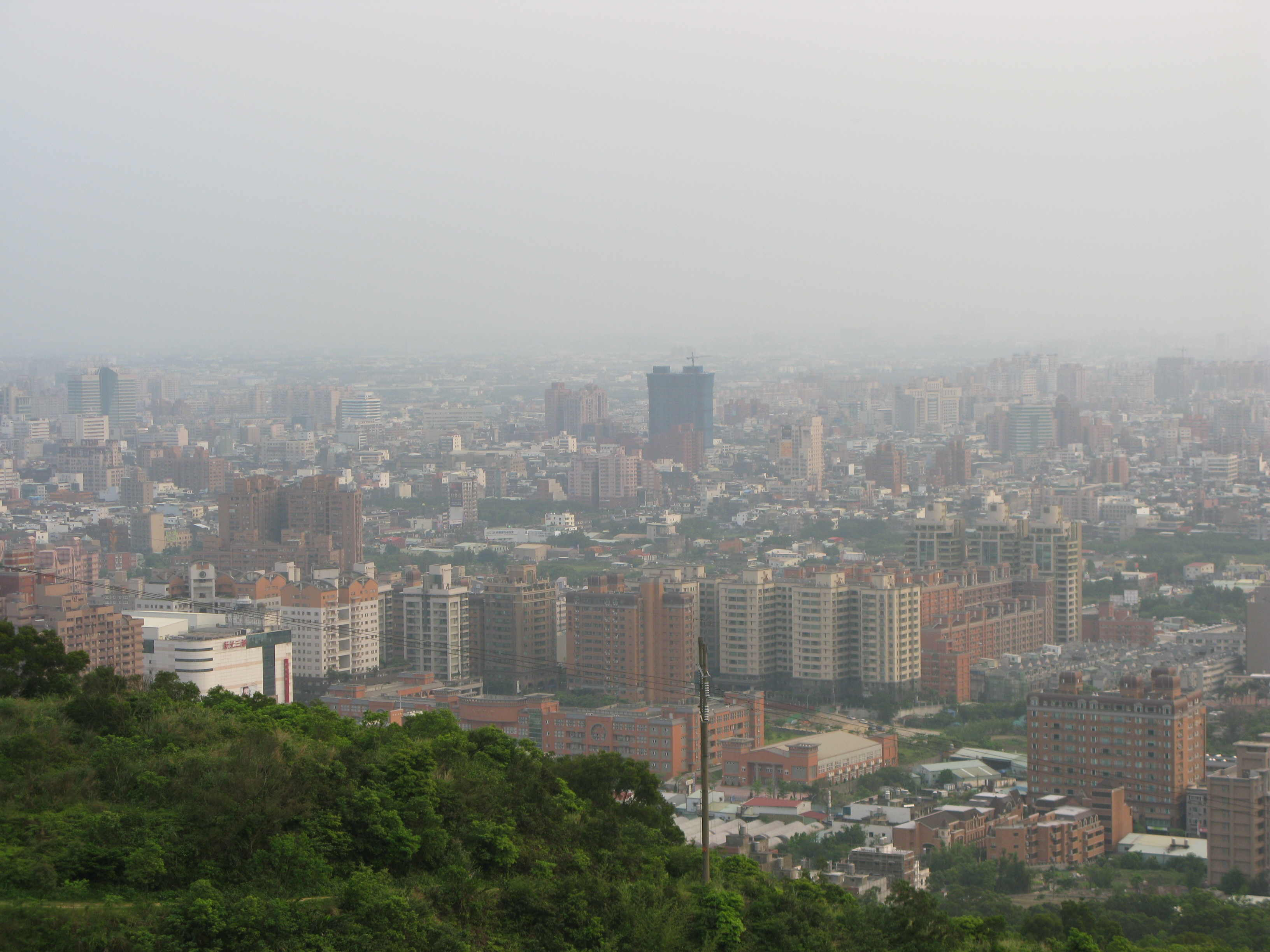 Taoyuan city's Scenery , Taiwan